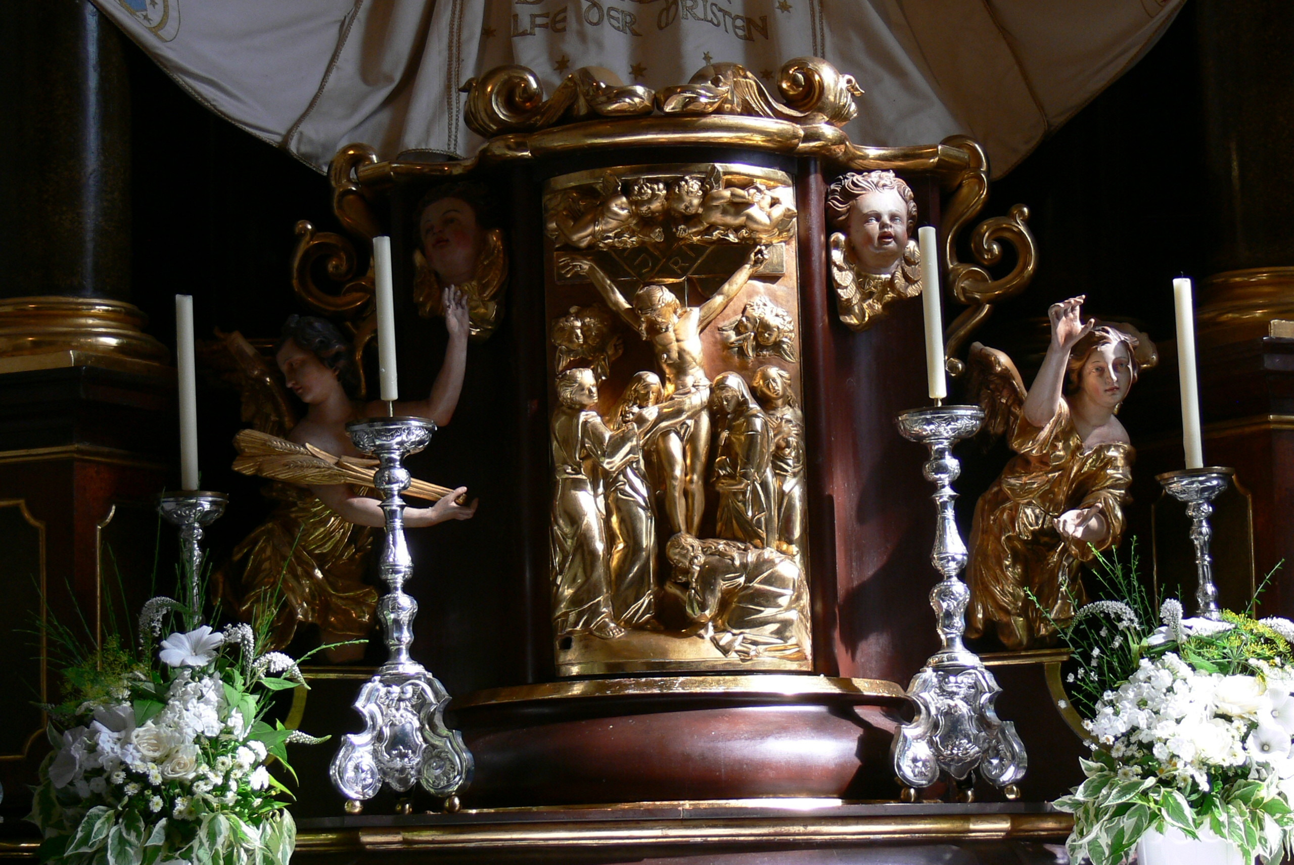 Berg near Rohrbach ( Upper Austria ). Maria-Trost church: Altar of Mary - Tabernacle ( 1949 ) by Joseph Furthner and Johann Freilinger.